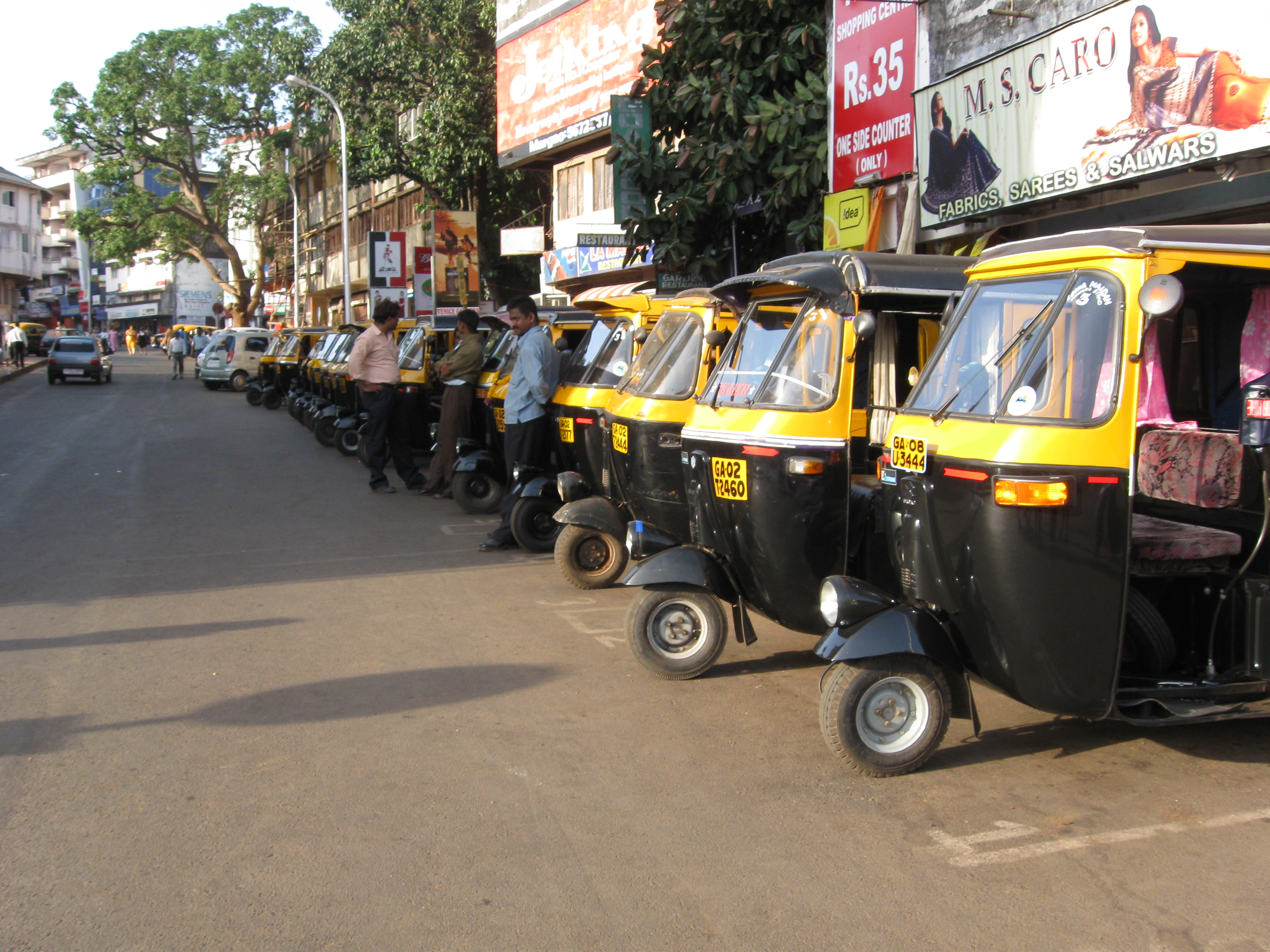 Margao Riskshaw Stand